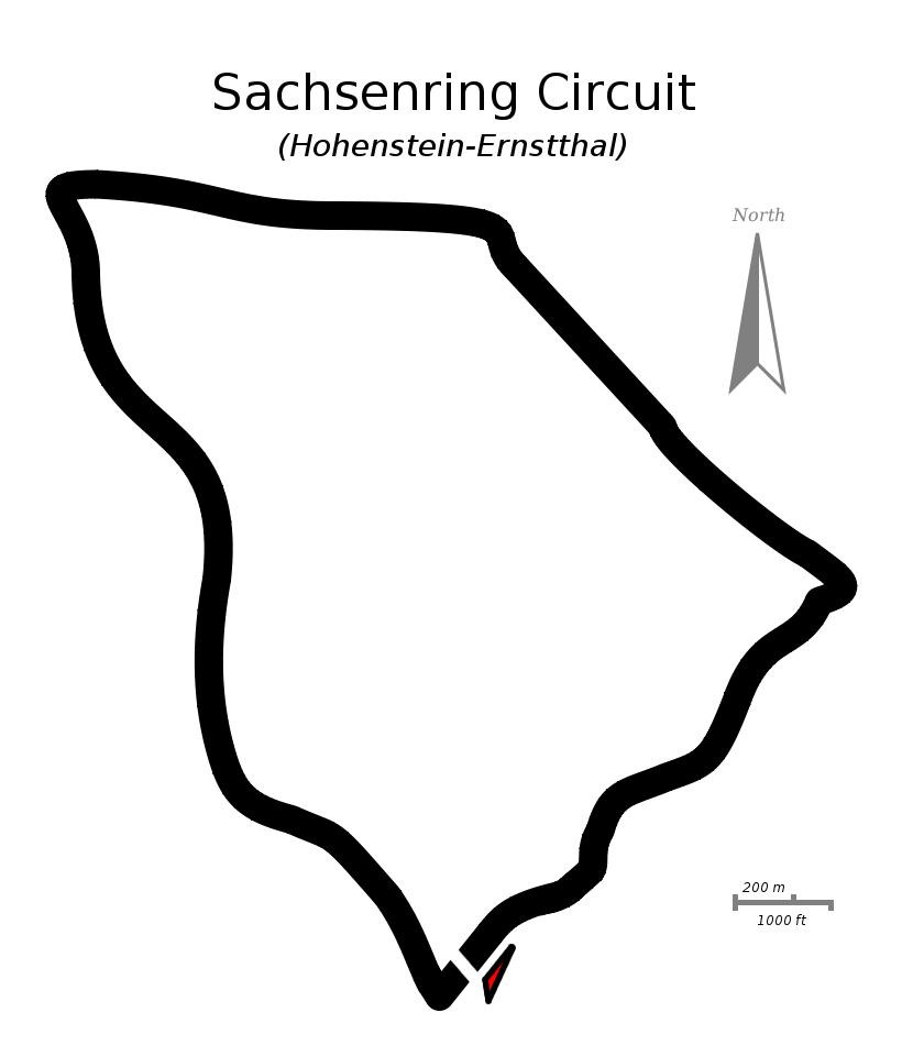 "Hohenstein-Ernstthal" old Sachsenring circuit map, the "Hohenstein-Ernstthal" track has been used with minor modifications from 1934 to 1990. Length from 5.352 to 5.425 mi. Own work